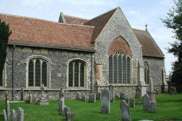 St Mary, Wingham, Kent